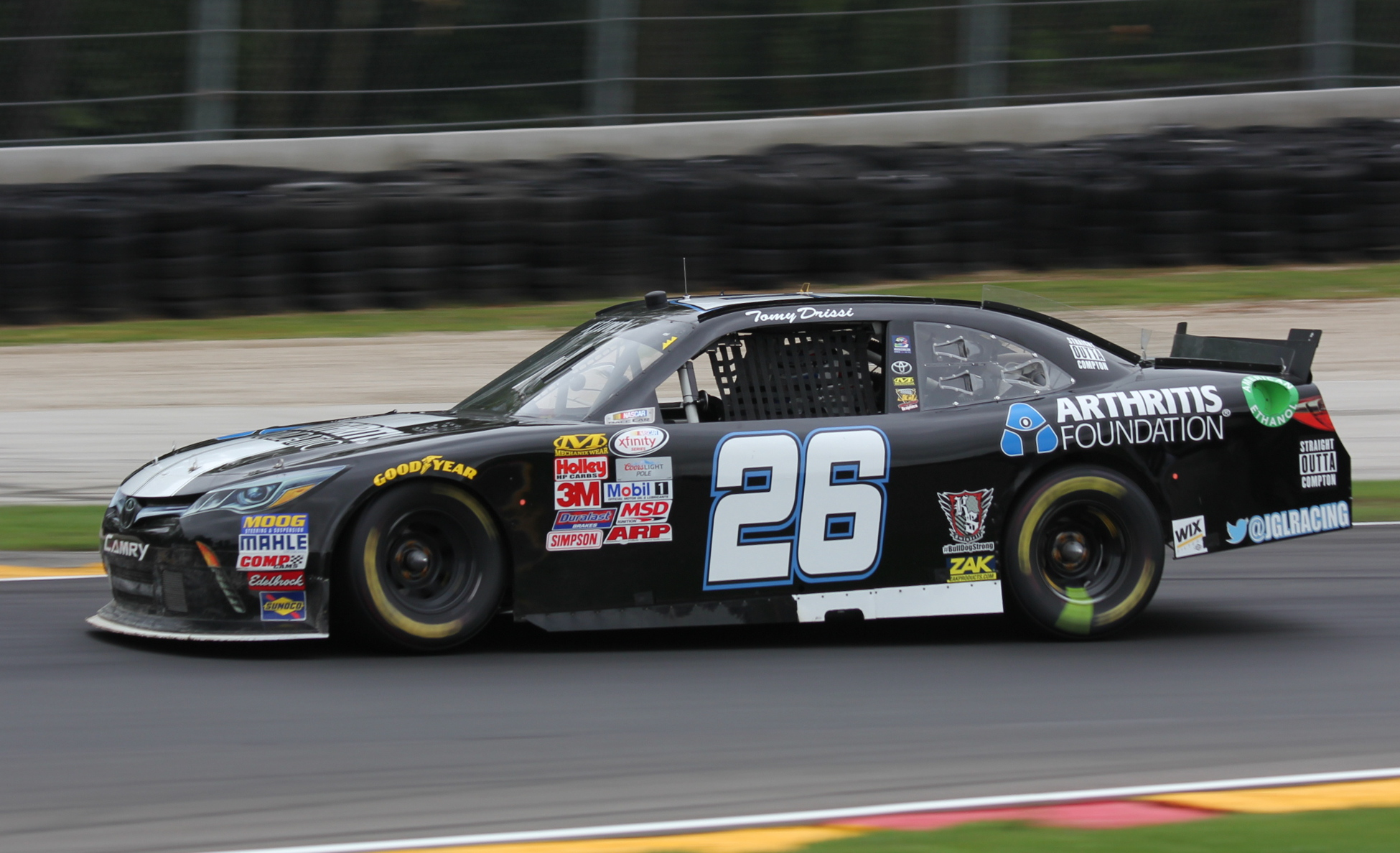 The NASCAR Xfinity Series car of Tomy Drissi turning left in Turn 6 at Road America.